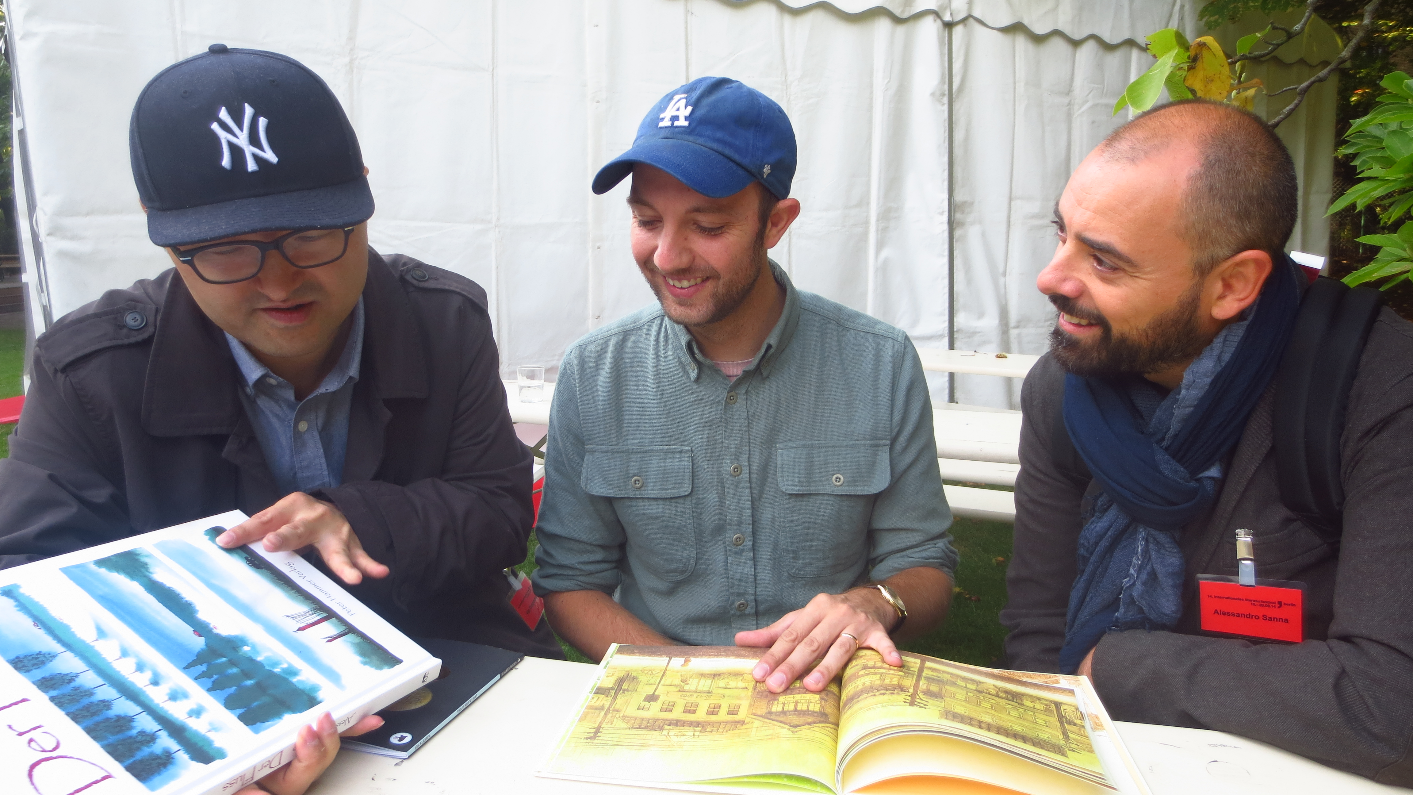 From left to right: Illustrator Kim Dong-sung, author and illustrator Jon Klassen and author and illustrator Alessandro Sanna in the festival garden at Haus der Berliner Festspiele during the 14th international literature festival berlin on September 15, 2014